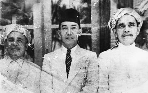 Kunjungan Soekarno dari pembuangan di Bengkulu, berdiskusi tentang bentuk republik dan menerima hadiah Kopiah untuk menjadi simbol marawa.